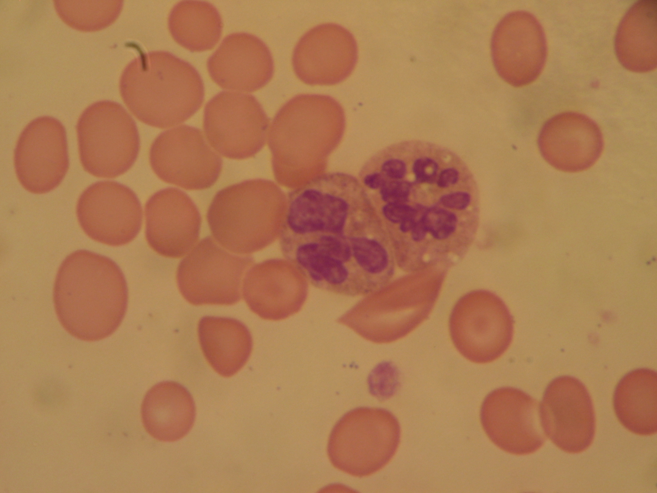 peripheral blood smear showing a hypersegmented neutrophil (right).